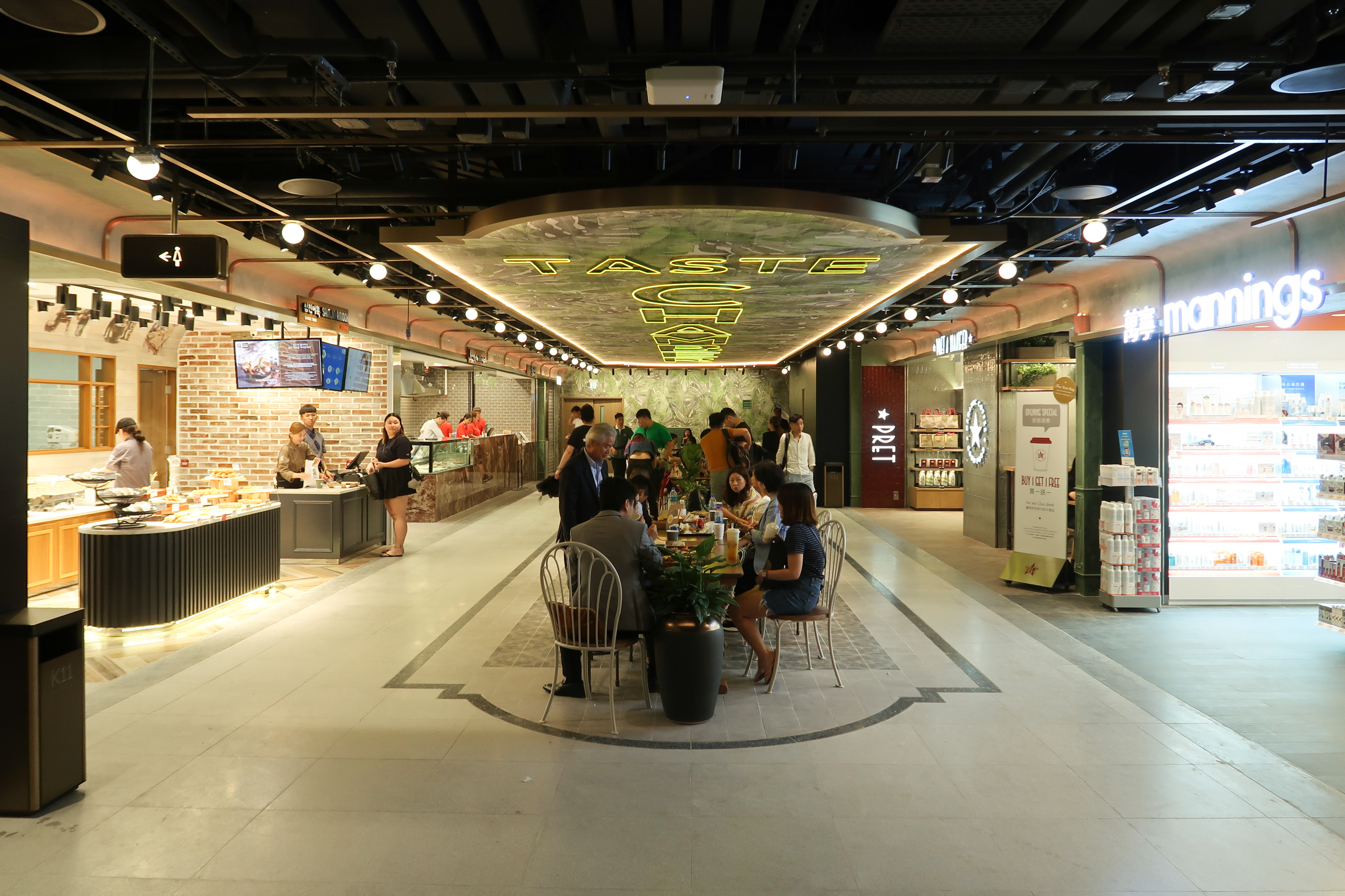 K11 MUSEA B2 Taste Chamber